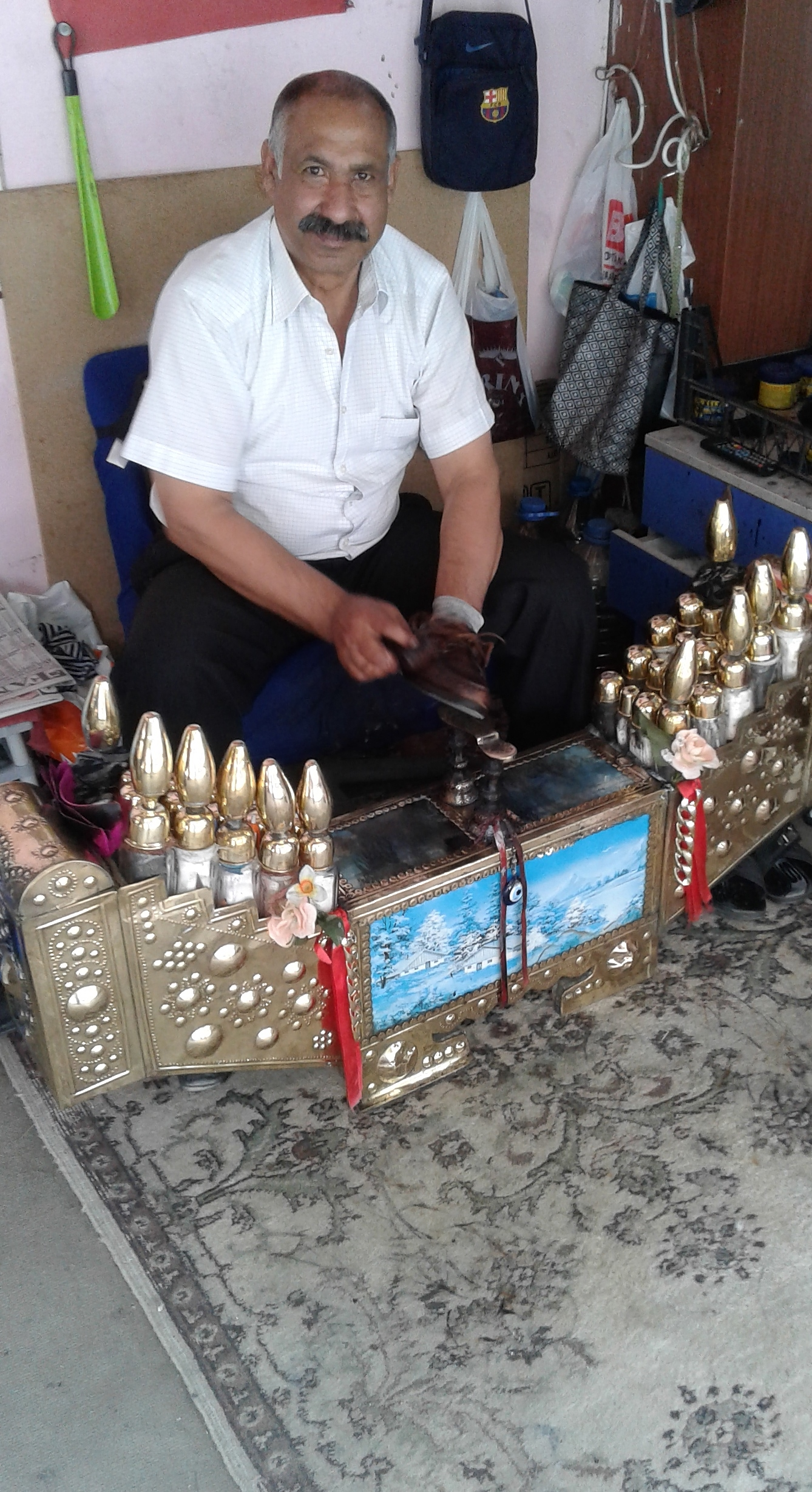 Shoeshiner in Silivri, Istanbul, Turkey